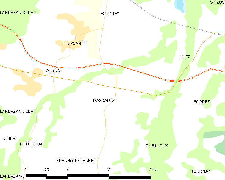 Map of French municipality